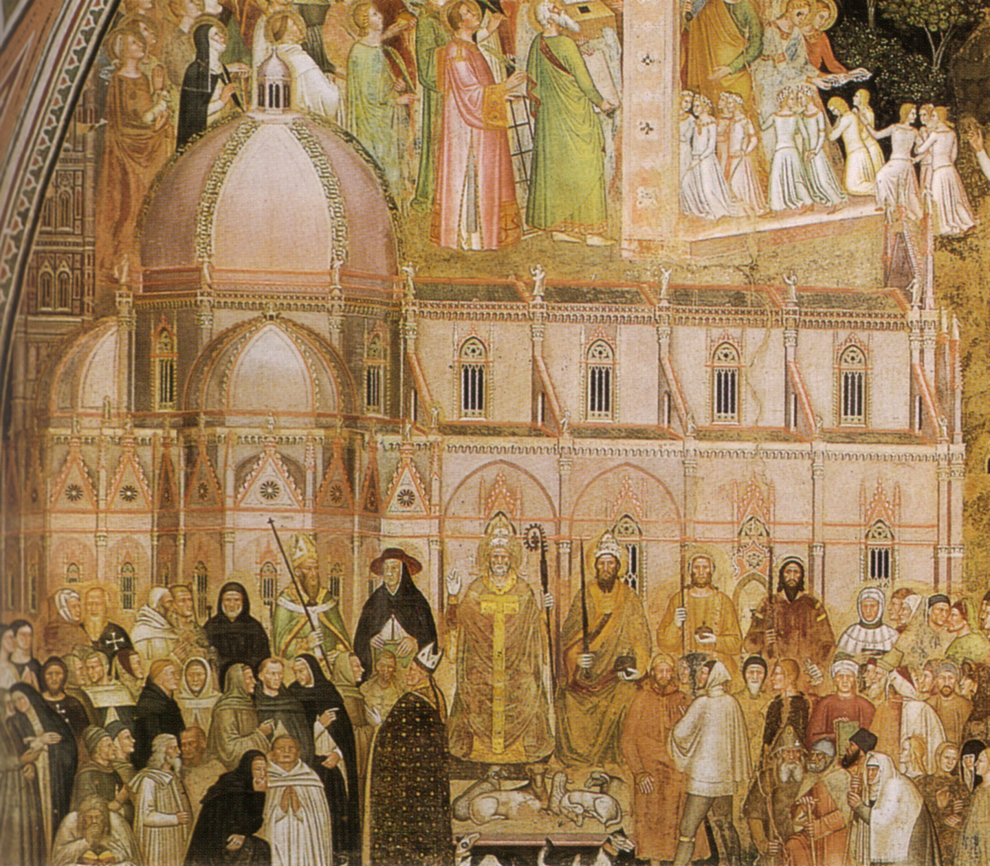 dettaglio dal cappellone degli spagnoli; the great Florentine Duomo, representing the Church with pope and emperor. The secular figures range from the emperor down to beggars and cripples.